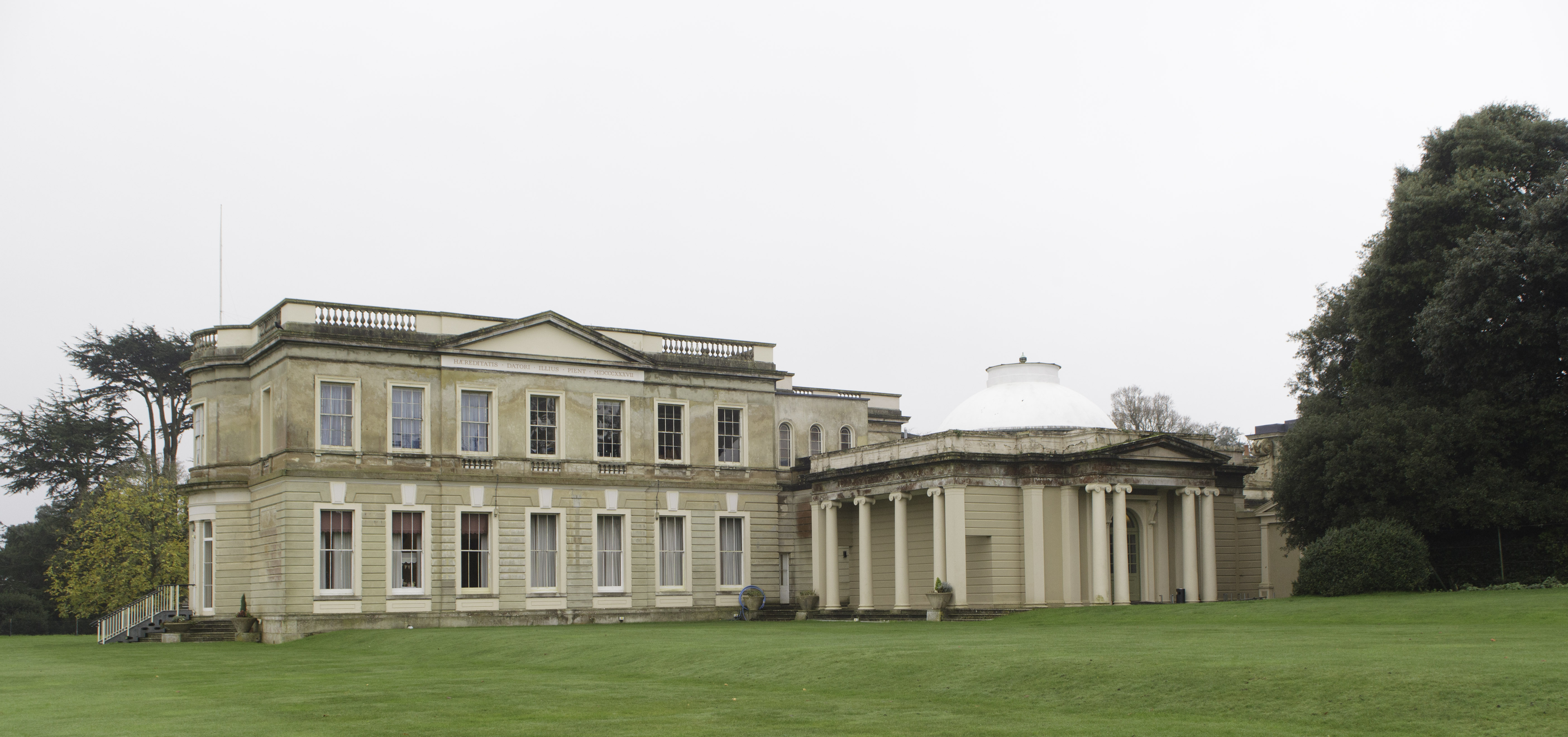 Northwood House (offices of Medina Borough Council)